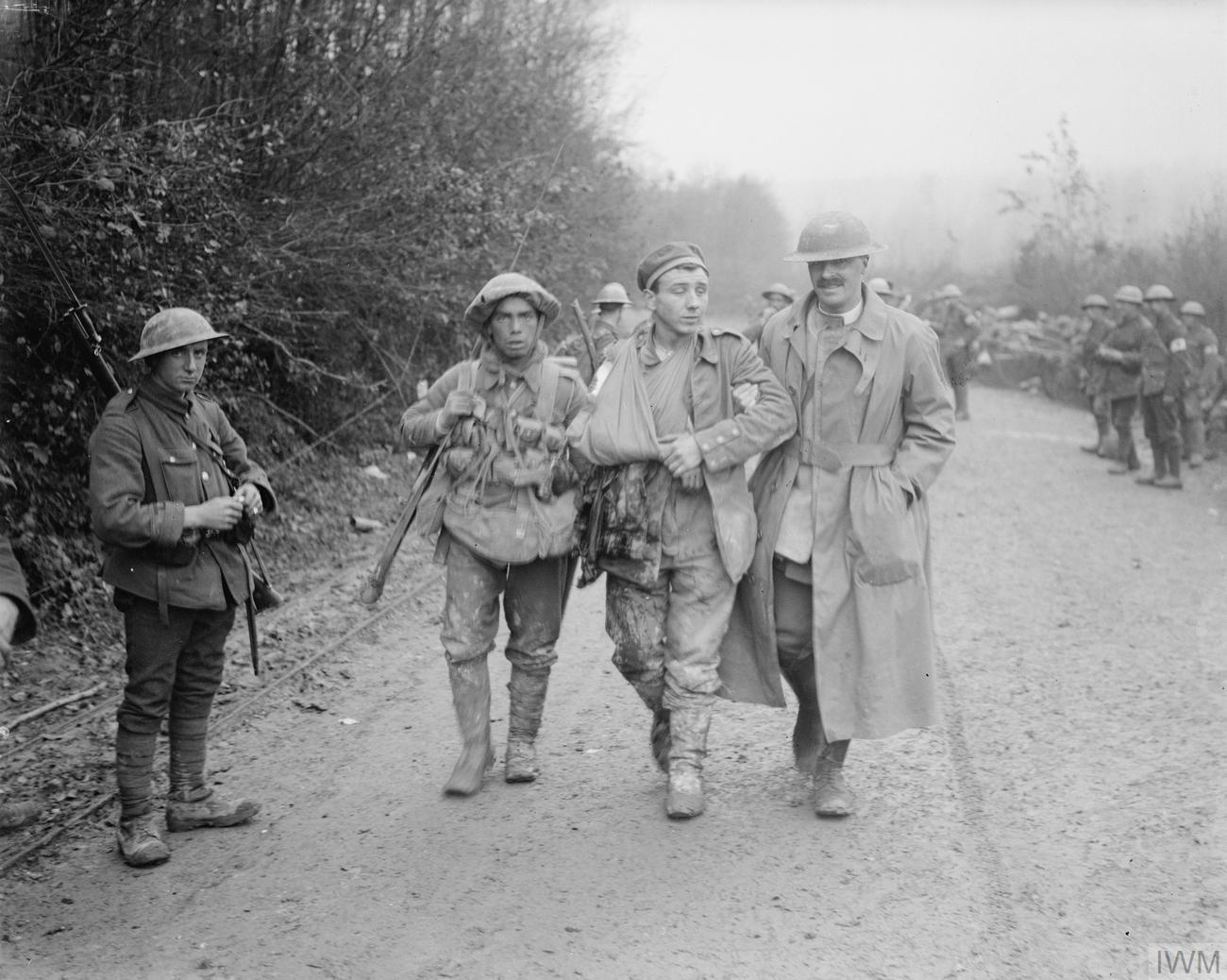 The Battle of the Somme, July-november 1916 Battle of the Ancre. An Army Chaplain of the Army Chaplains' Department helping along a wounded German prisoner taken on the 13th of November 1916. Near Aveluy Wood.